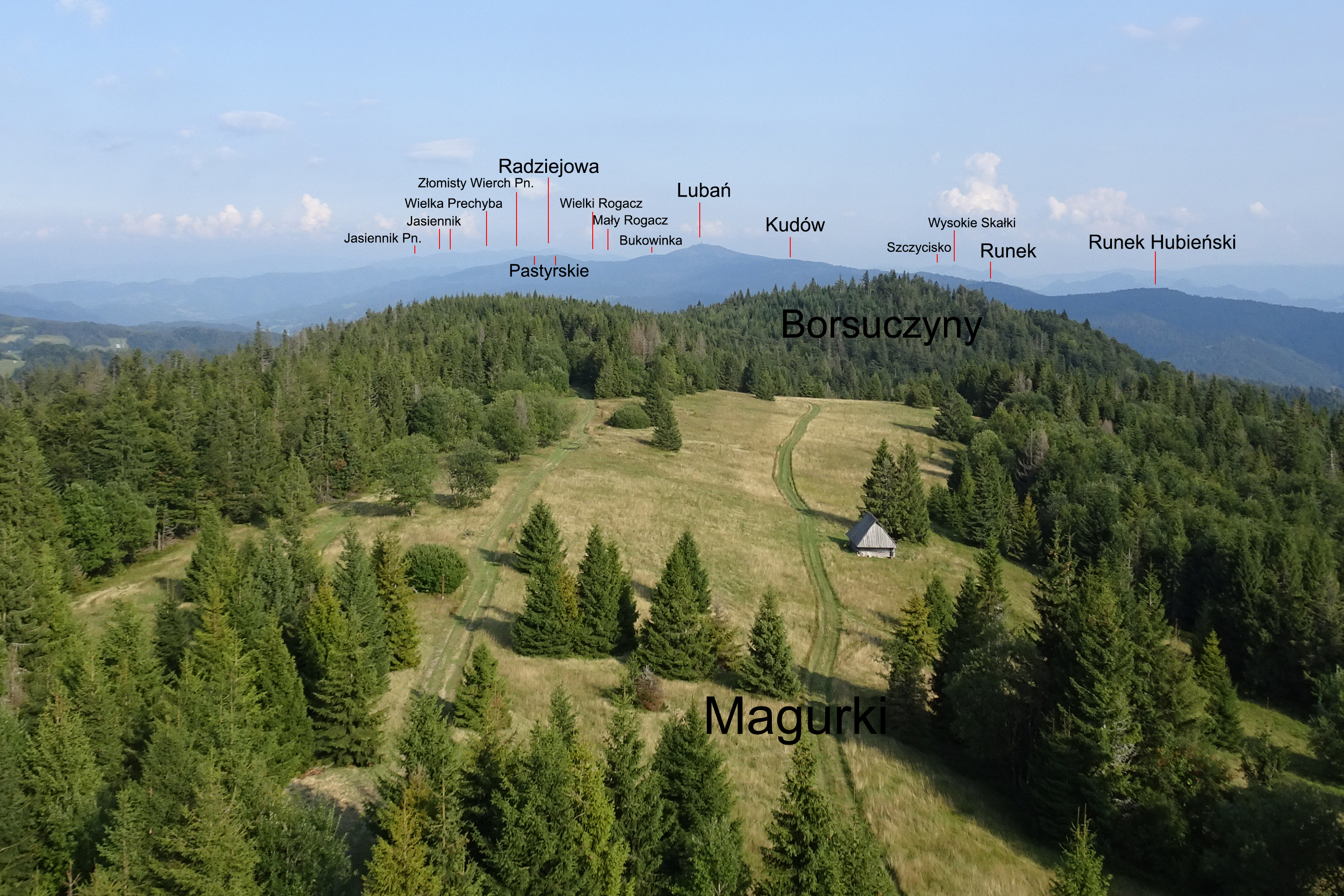 Widok z Magurek